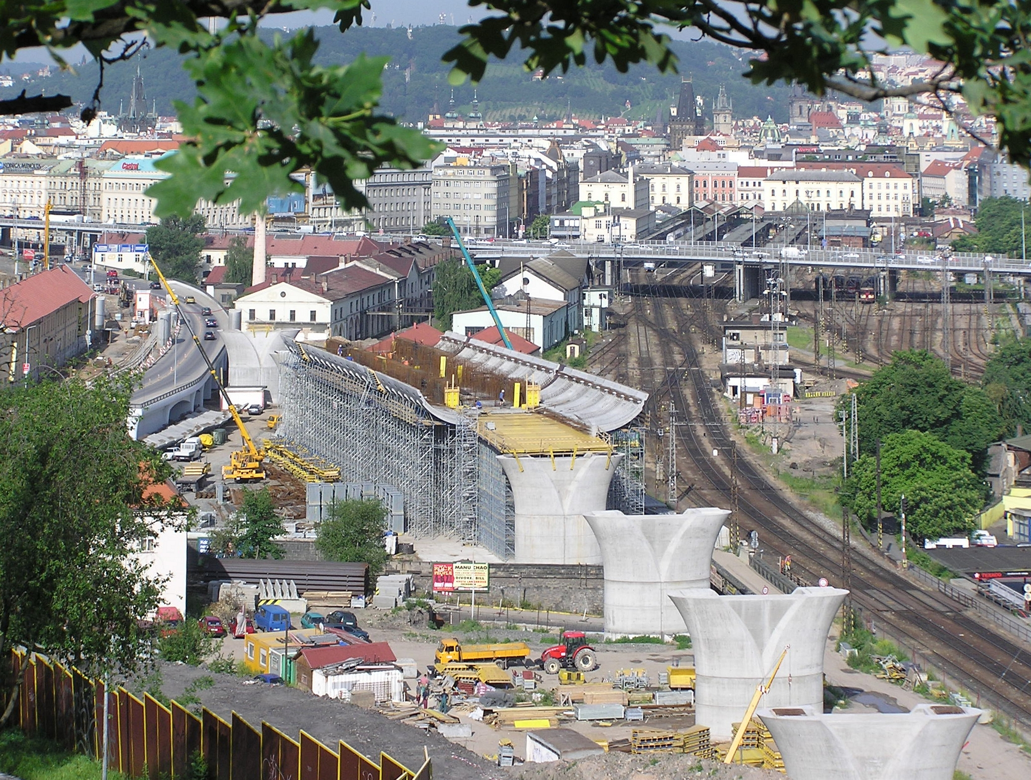 Railway scaffold bridge being built for the New Connection project.